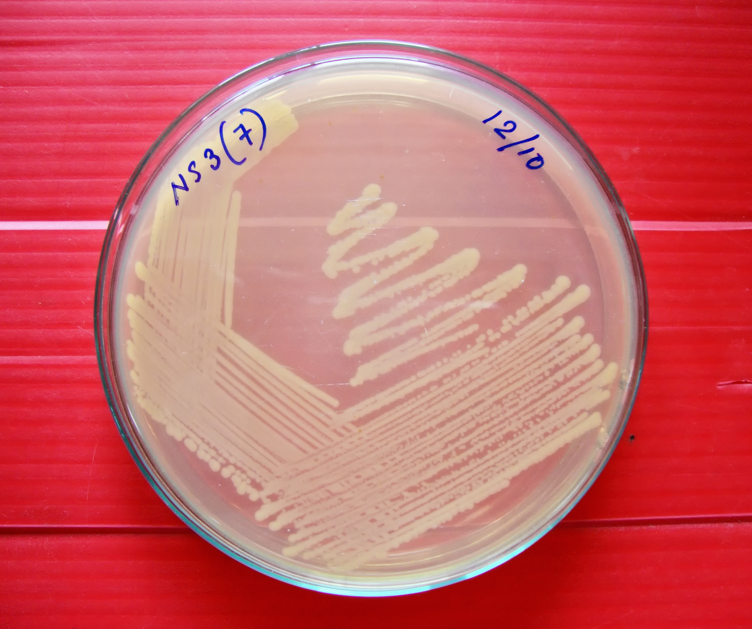 E. coli culture stricked in a petriplate.